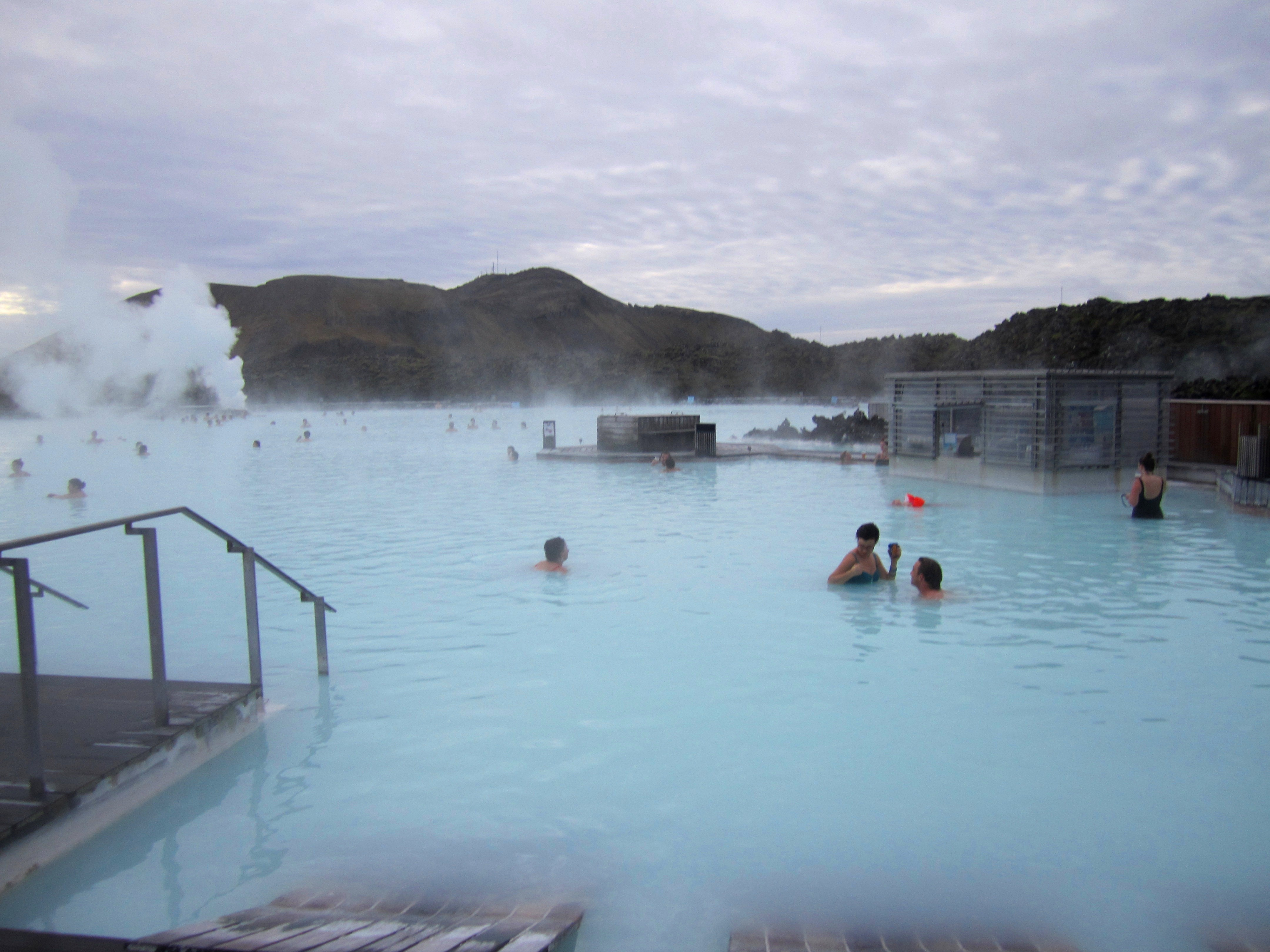 iceland 097